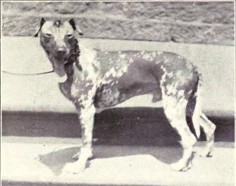 Mexican Hairless from 1915